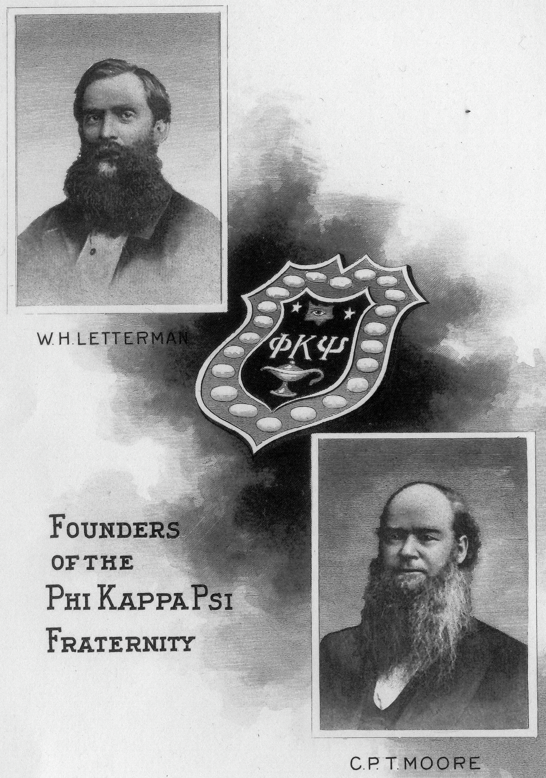 Phi Kappa Psi founders William Henry Letterman and Charles Page Thomas Moore from the 1902 Van Cleve history of the fraternity (Cropped)